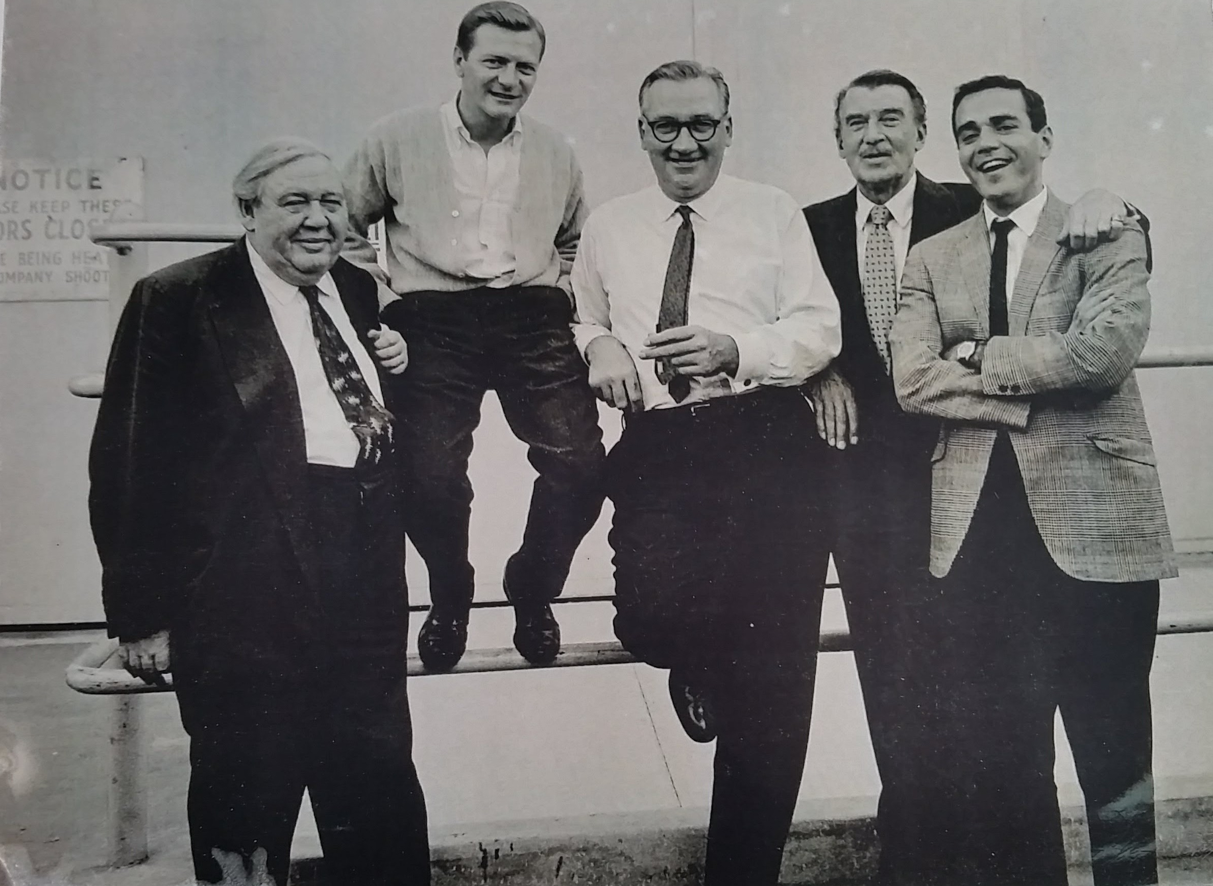 On the set of the American film Advise & Consent (1962) with Charles Laughton, George Grizzard, Edward Andrews, Walter Pidgeon, and David De Silva.